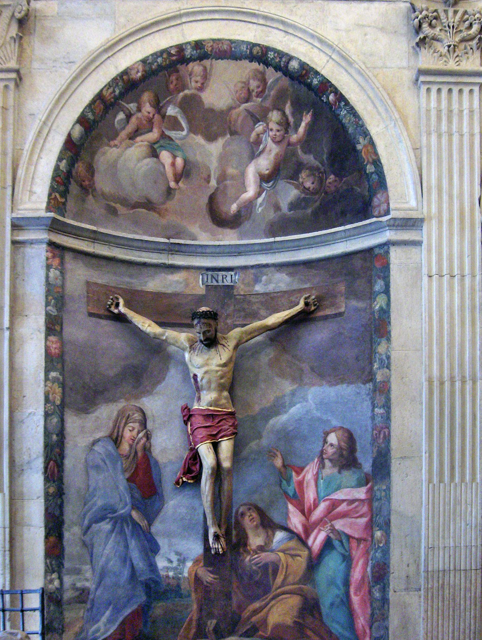 Crucifixion with the Virgin, the Magdalen and John the Baptist (1625-1626); fresco attributed to the French painter Noël Quillerier; Oratorio della Nunziatella; Foligno, Italy